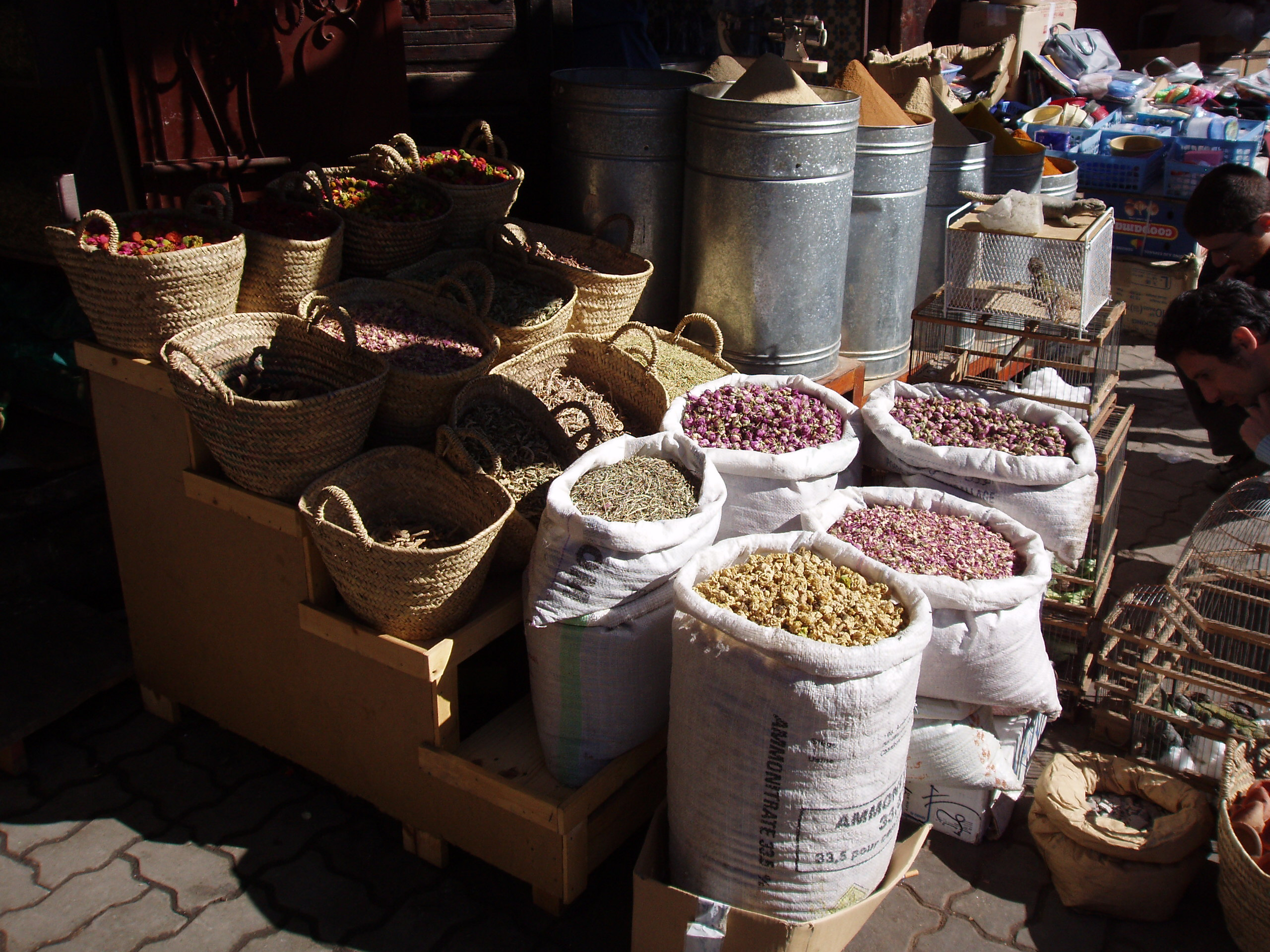 An arabic herbarge shop in the souk of Marrakech, Marocco.